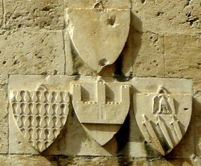 Coats of arms in to Tower of Elephant, Cagliari